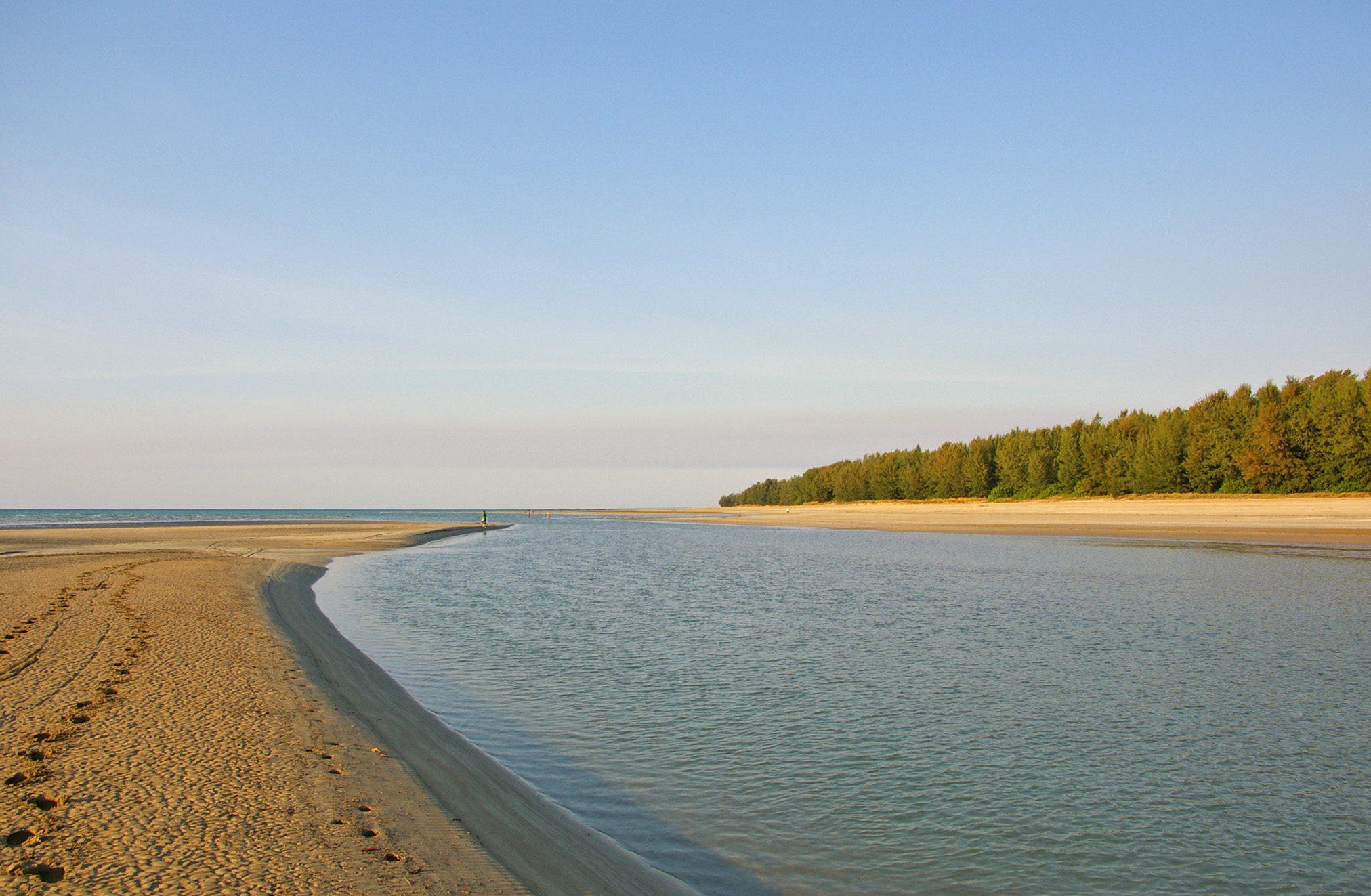 Estuary mouth of Sandy Creek at low tide. Casuarina Coastal Reserve in Darwin, Northern Territory, Australia.